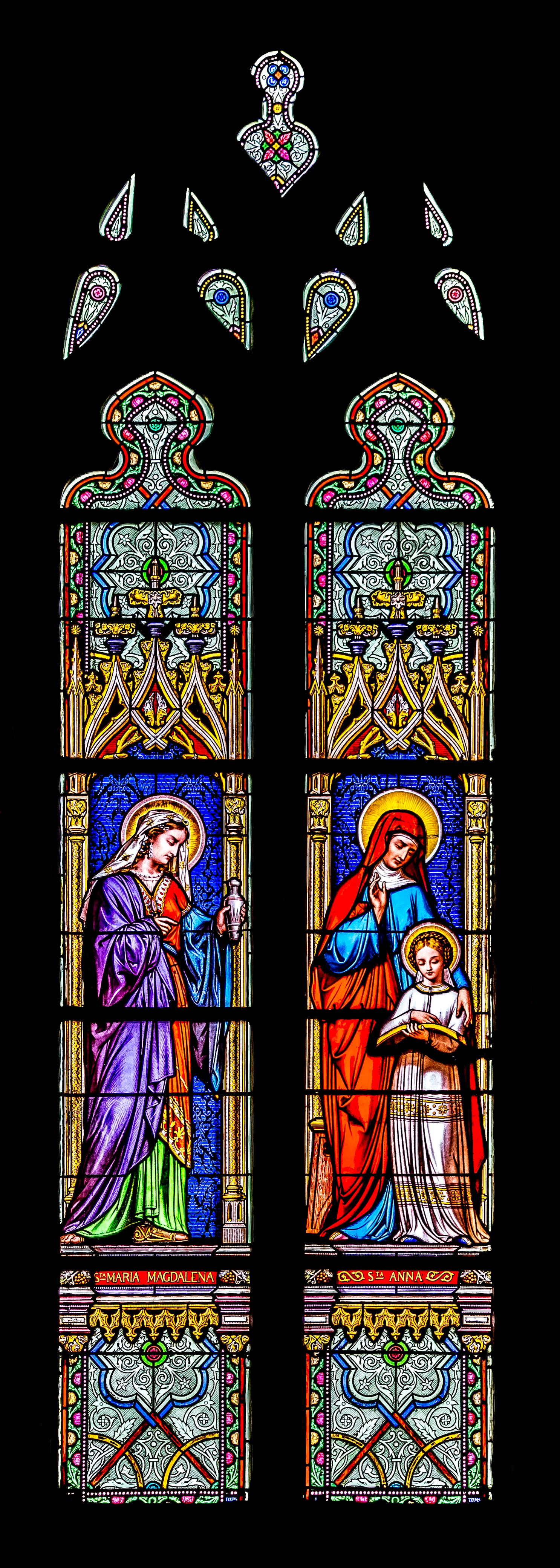 Stained-glass window of the Saint Louis Cathedral of Blois, Loir-et-Cher, France